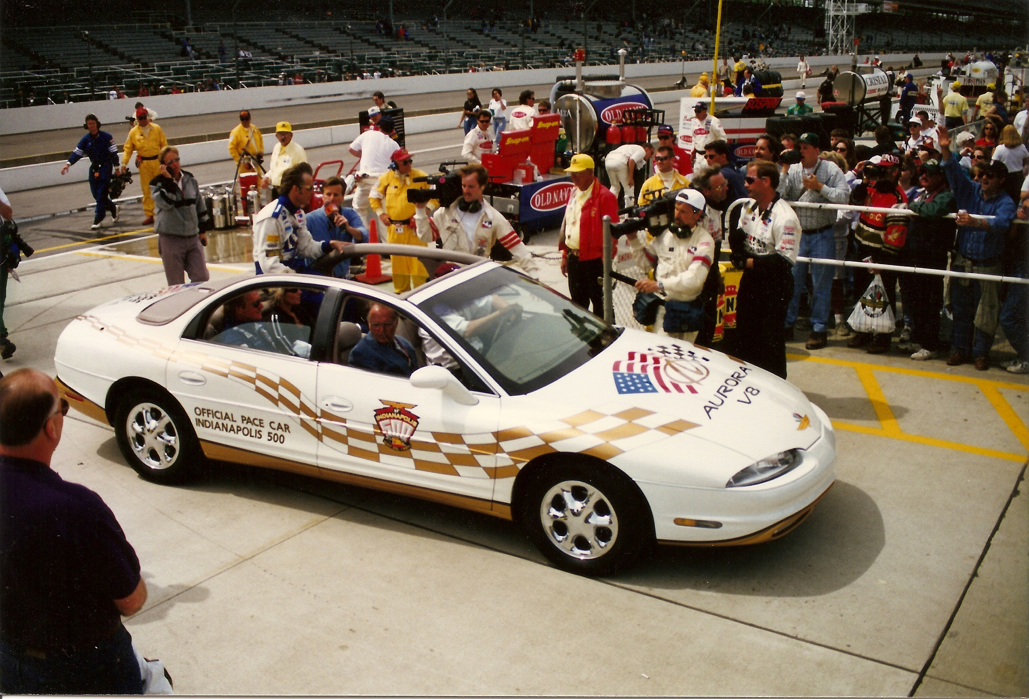 Arie Luyendyk riding in the 1997 Oldsmobile Aurora pace car at the 1997 Indianapolis 500